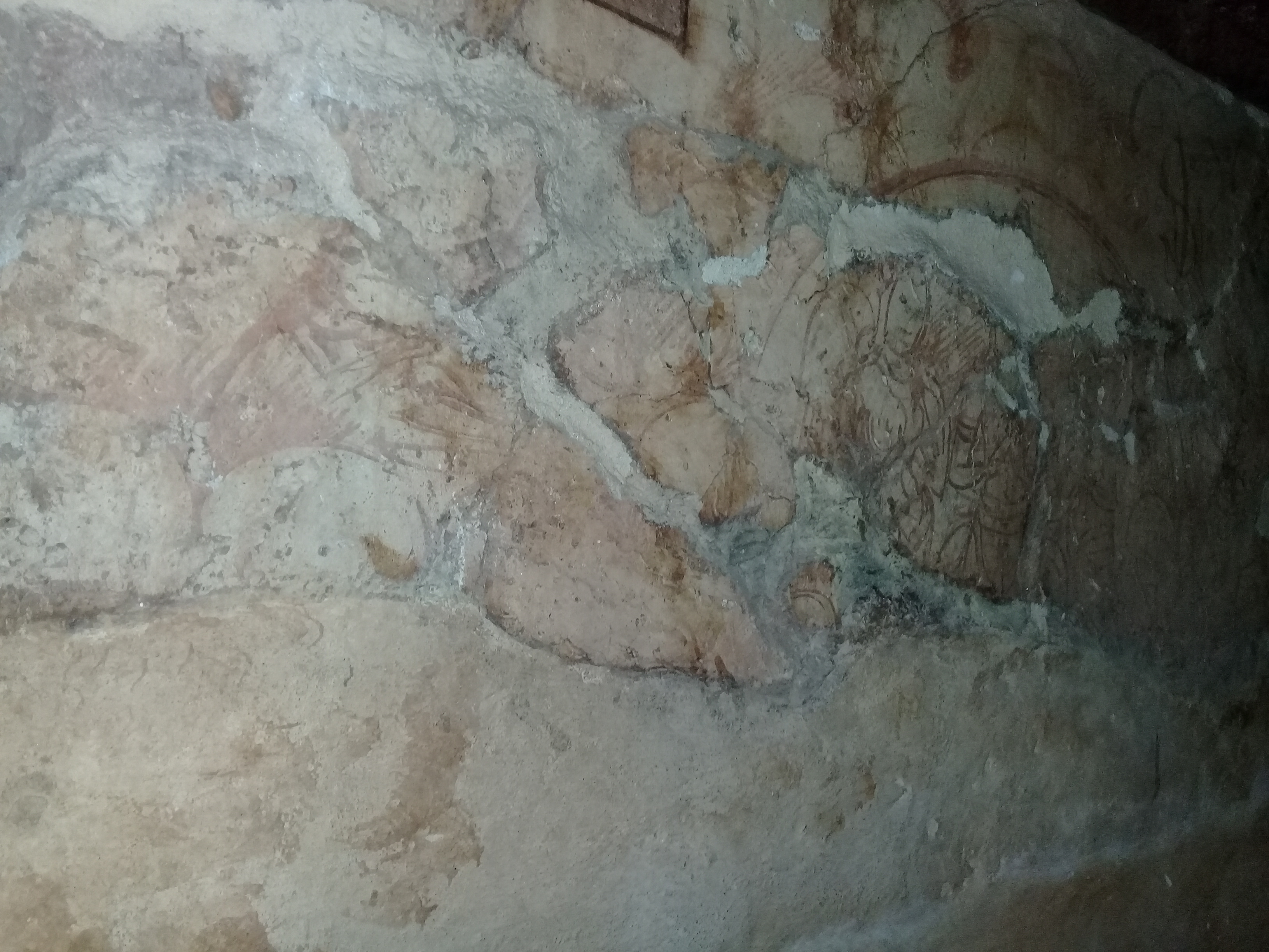 A relic chamber of a small stupa in Mihintale. This relic chamber consists of frescoes belonging to Anuradhapura era. This is now housed at Archaeological Museum, Mihintale.